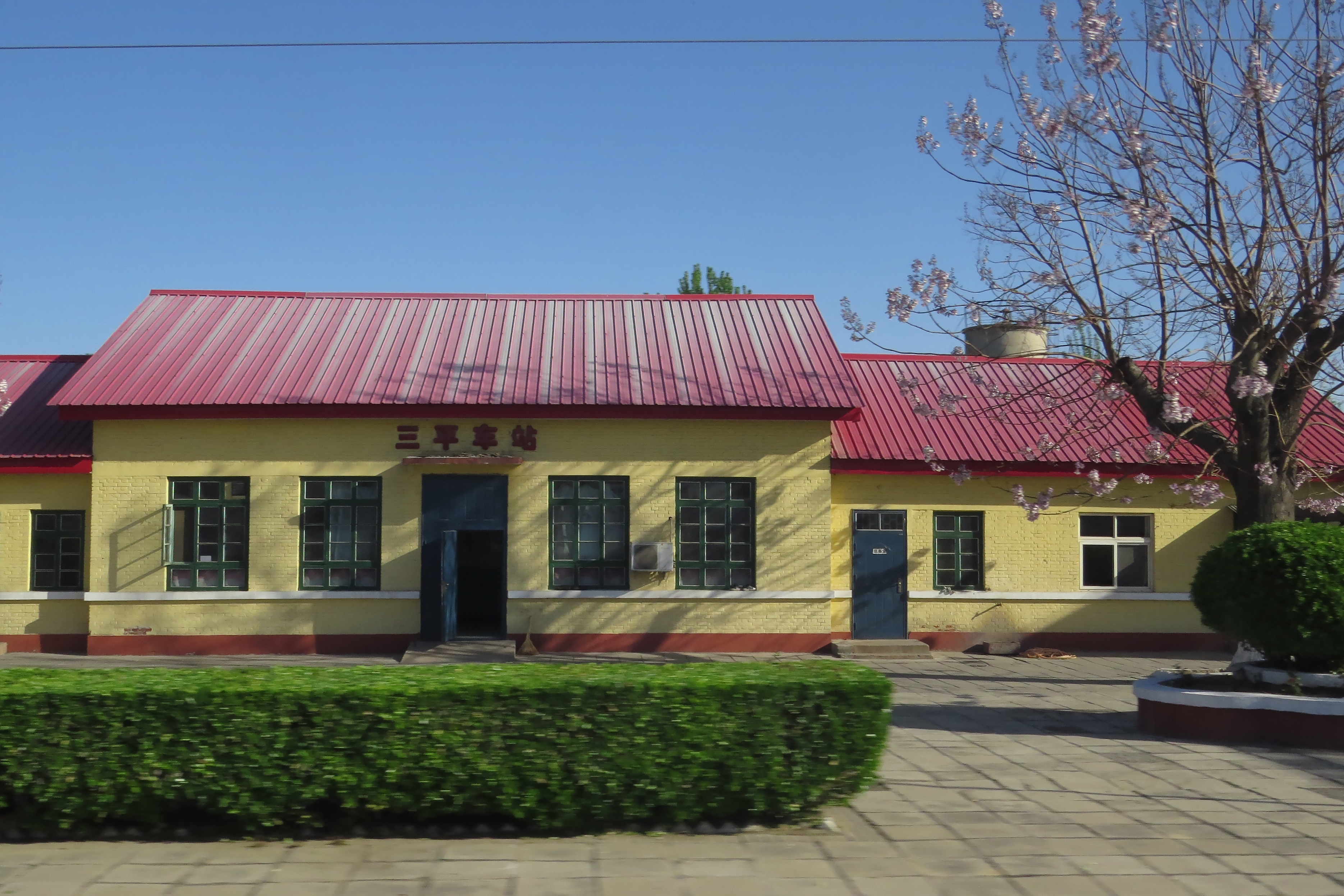 A small station on Beijing-Harbin Railway with no passenger service...in Sanhe.